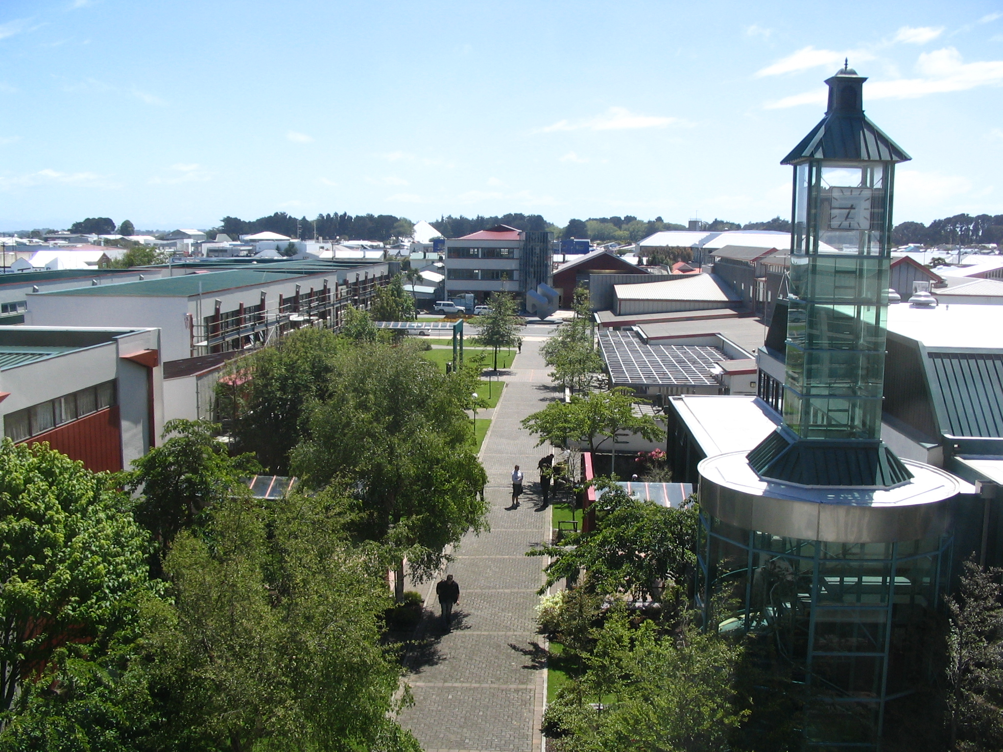 Subject: SIT, Main Campus Location: SIT, Tay St, Invercargill New Zealand Photographer: Willuknight 07:33, 1 December 2006 (UTC)